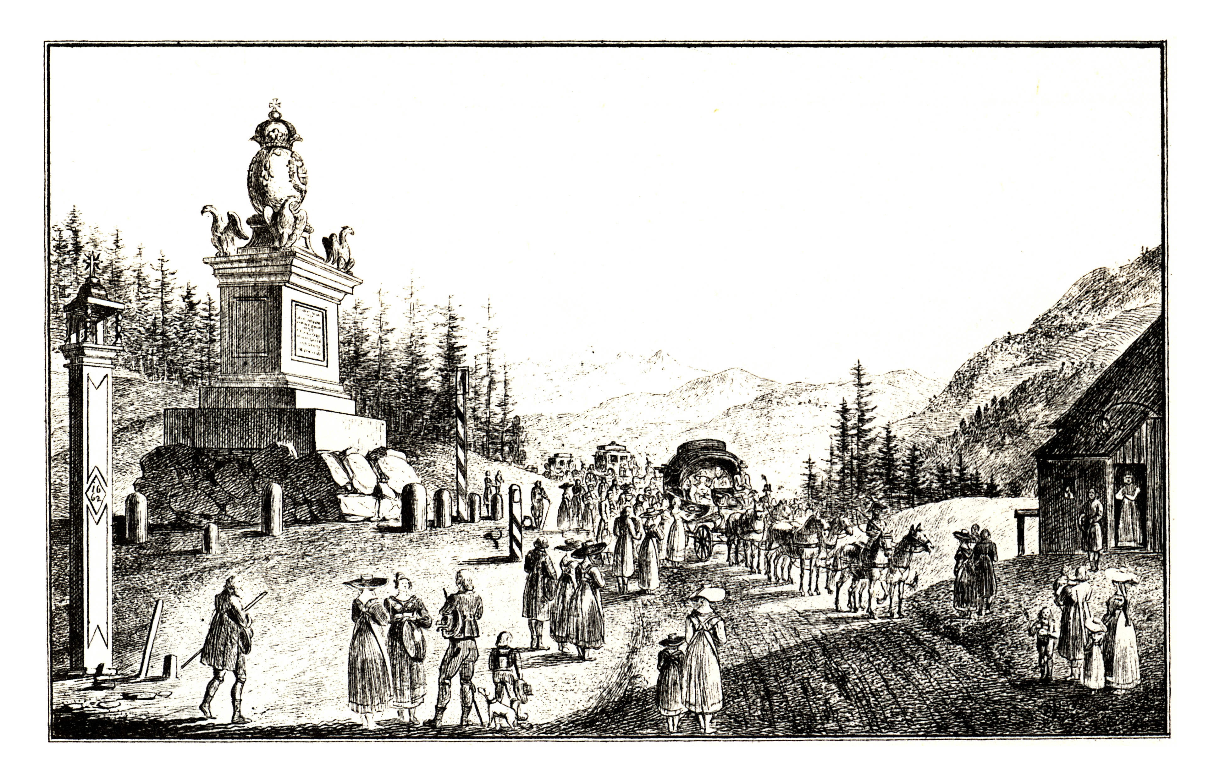 J. F. Kaiser - lithographirte Ansichten der Steyermärkischen Städte, Märkte und Schlösser, Graz 1824-1833 Semmeringpass, 20. August 1825, Kaiser Franz und Karoline auf dem Weg nach Italien, Lith. um 1830, J.F.Kaiser, Graz Joseph Franz Kaiser (1786–1859) Alternative names J. F. KaiserDescriptionAustrian printer and editorDate of birth/death 11 March 1786 19 September 1859Location of birth/death Graz (Styria) GrazAuthority control : Q1499963 VIAF: 30629353 ISNI: 0000 0000 3083 0153 LCCN: n87141671 GND: 129880159 NLP: A24960305 WorldCat creator QS:P170,Q1499963 . Scanprojekt Community Projektbudget 2012 This scan or this PDF-file was created within the GLAM-project Bookscanning, supported by Wikimedia Germany and Wikimedia Austria as a part of the community-project to capture books, documents and pictures which are not eligible to copyright or for which the copyright has expired. This document describes or depicts an object which is located in Austria today. Send requests for uncompressed scans to Hubertl. This work is in the public domain in its country of origin and other countries and areas where the copyright term is the author's life plus 100 years or fewer. You must also include a United States public domain tag to indicate why this work is in the public domain in the United States. This file has been identified as being free of known restrictions under copyright law, including all related and neighboring rights.